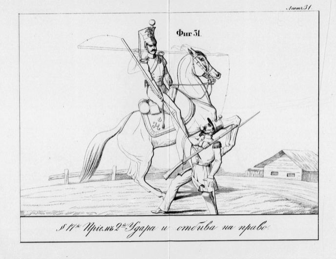 Страница из книги Соколова "Искуства фехтования пикой", 1853 год